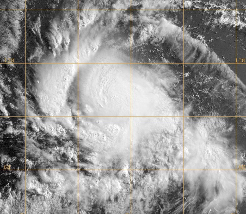 Tropical Storm Carlos